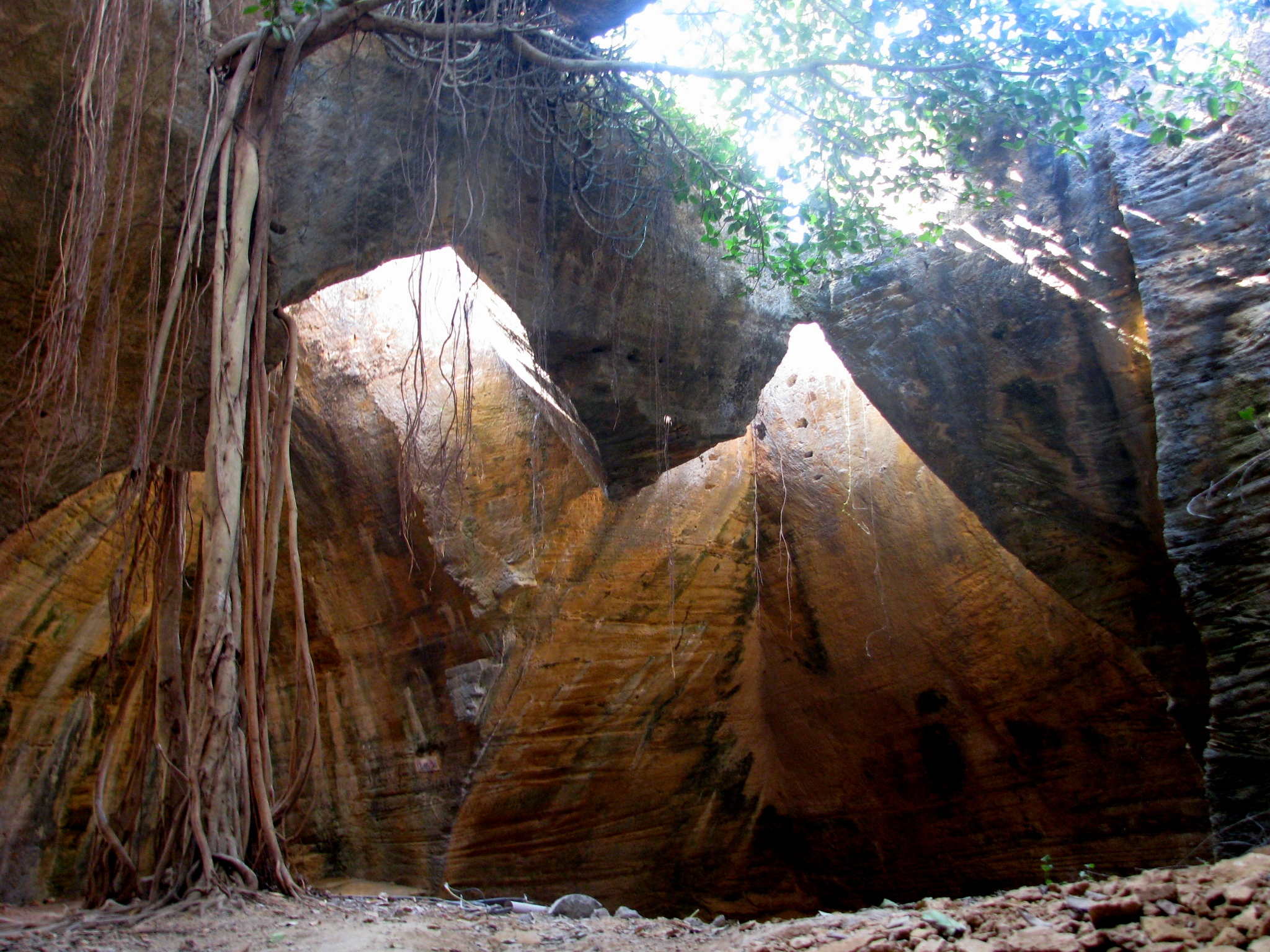 Naida Caves, Diu